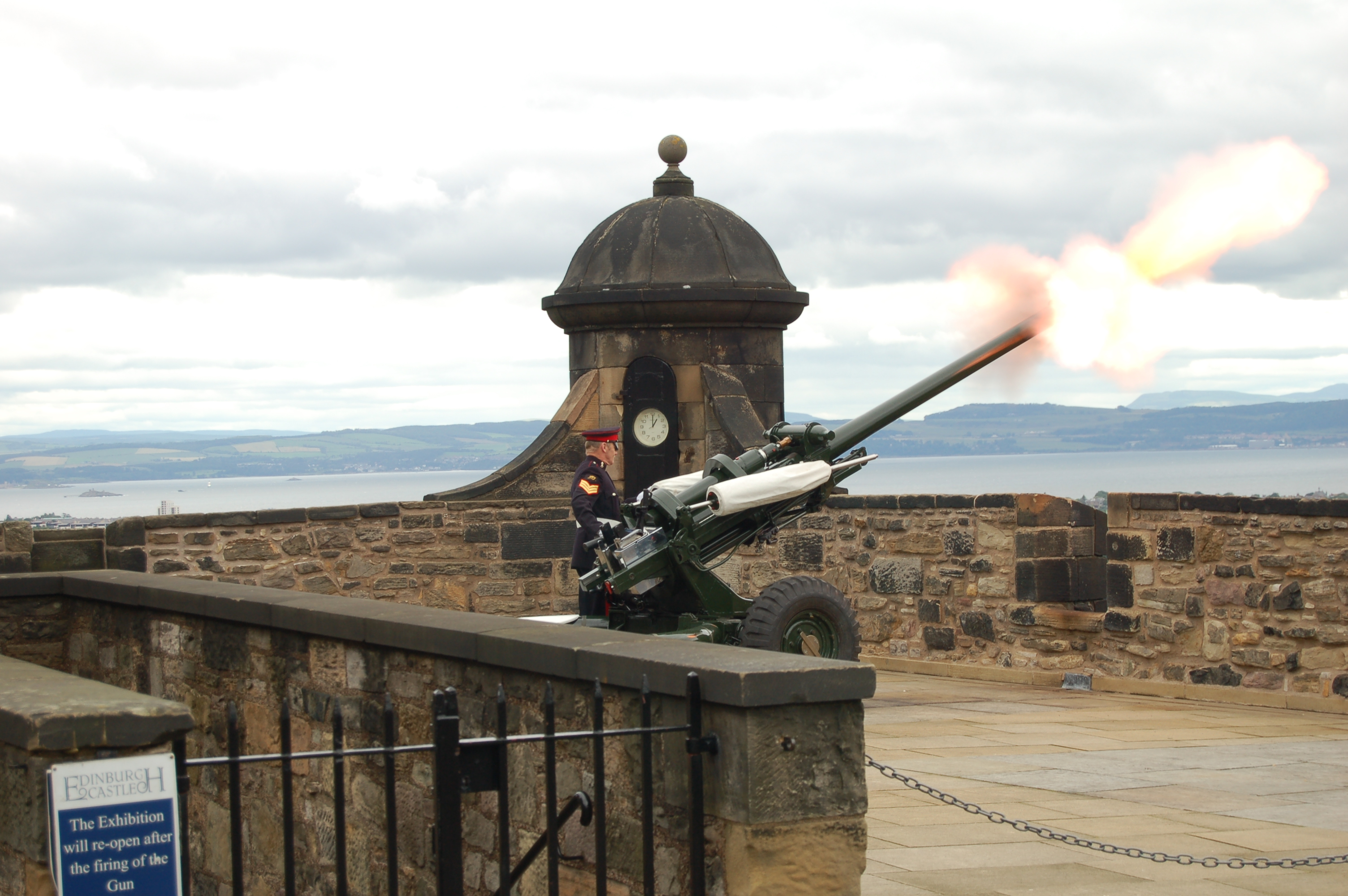 One O'Clock Gun Firing at Edinburgh Castle on June 25, 2007